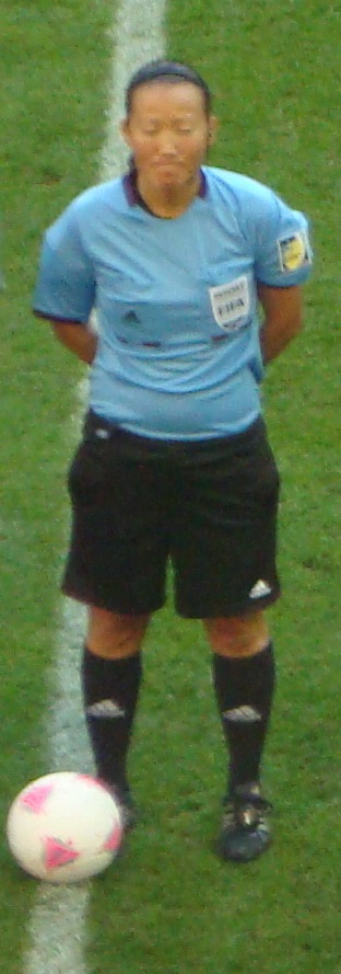 Referee Jenny Palmqvist at Brazil women's football team v Cameroon at 2012 Olympics 25-7-12